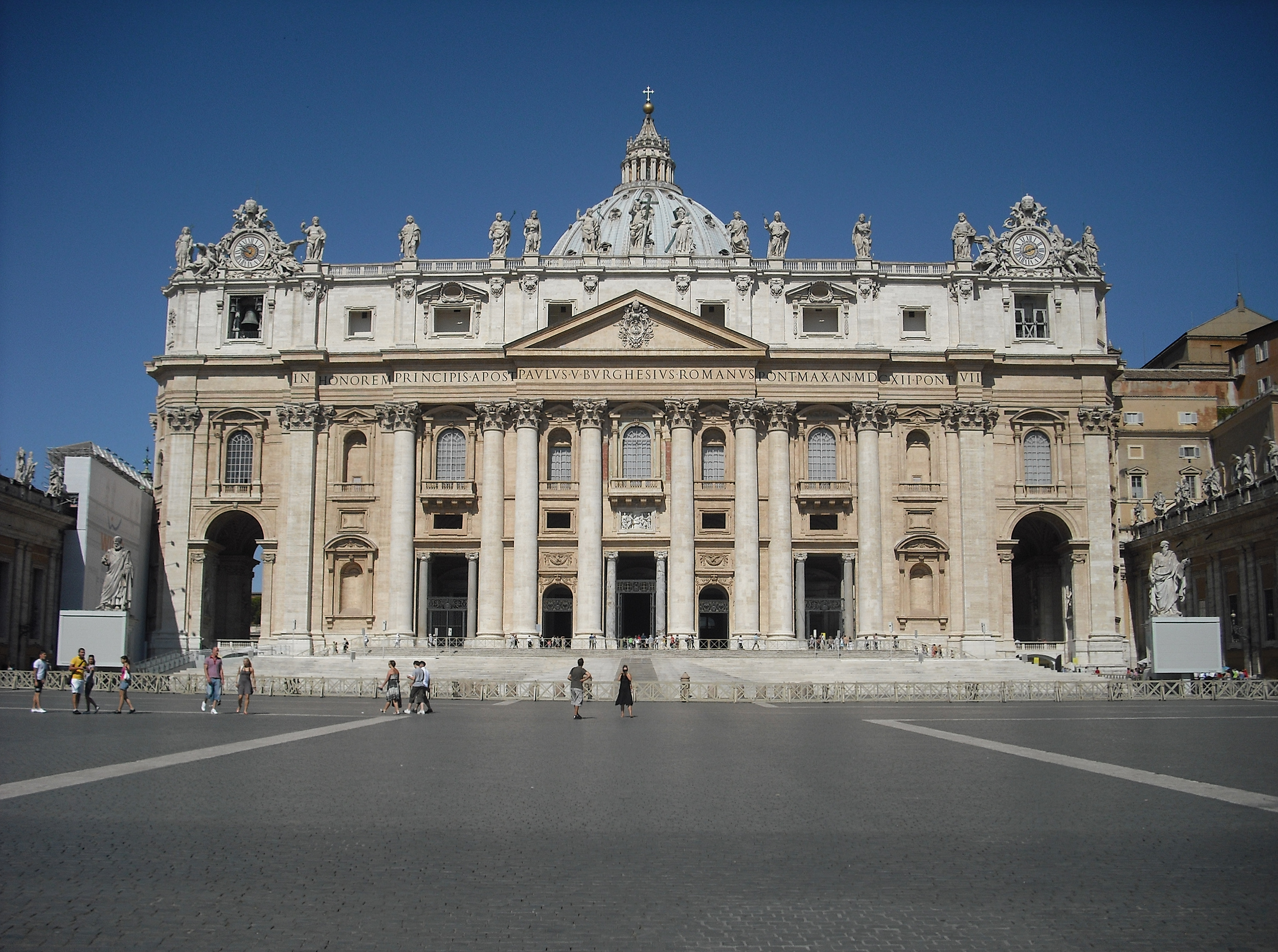 Façade of St. Peter's Basilica as seen from Saint Peter's Square.